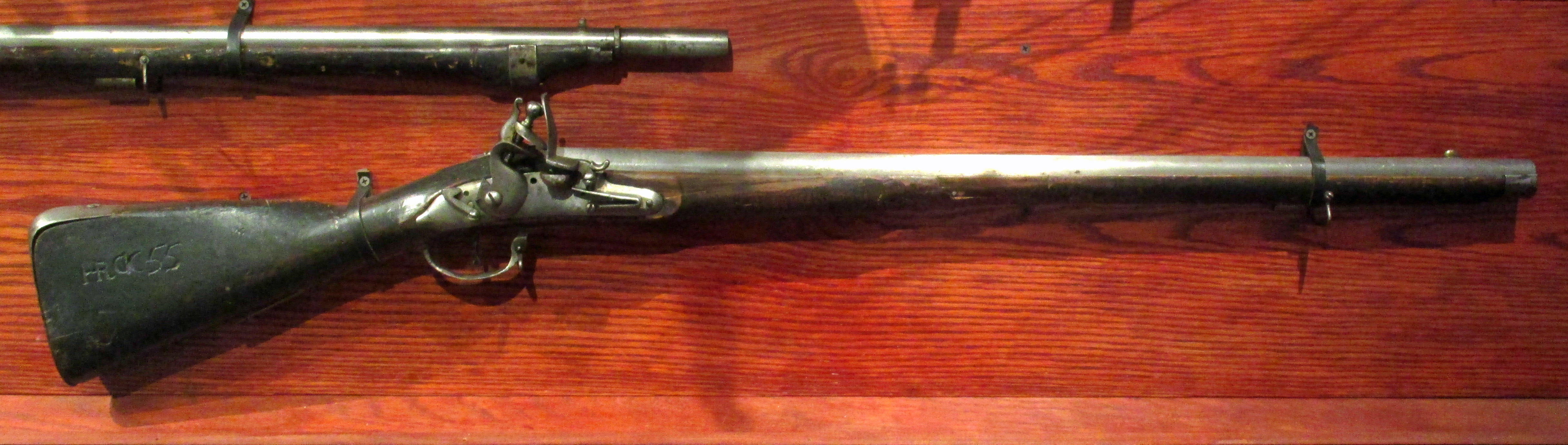 Rifle made in 1725 used on a Swedish East Indiaman. Now in the Gothenburg Maritime Museum